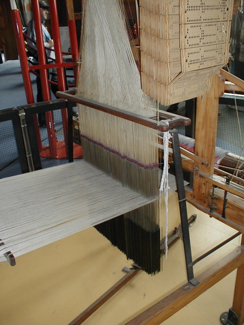 Picture of a Jacquard loom on display at the Museum of Science and Industry in Manchester, England.